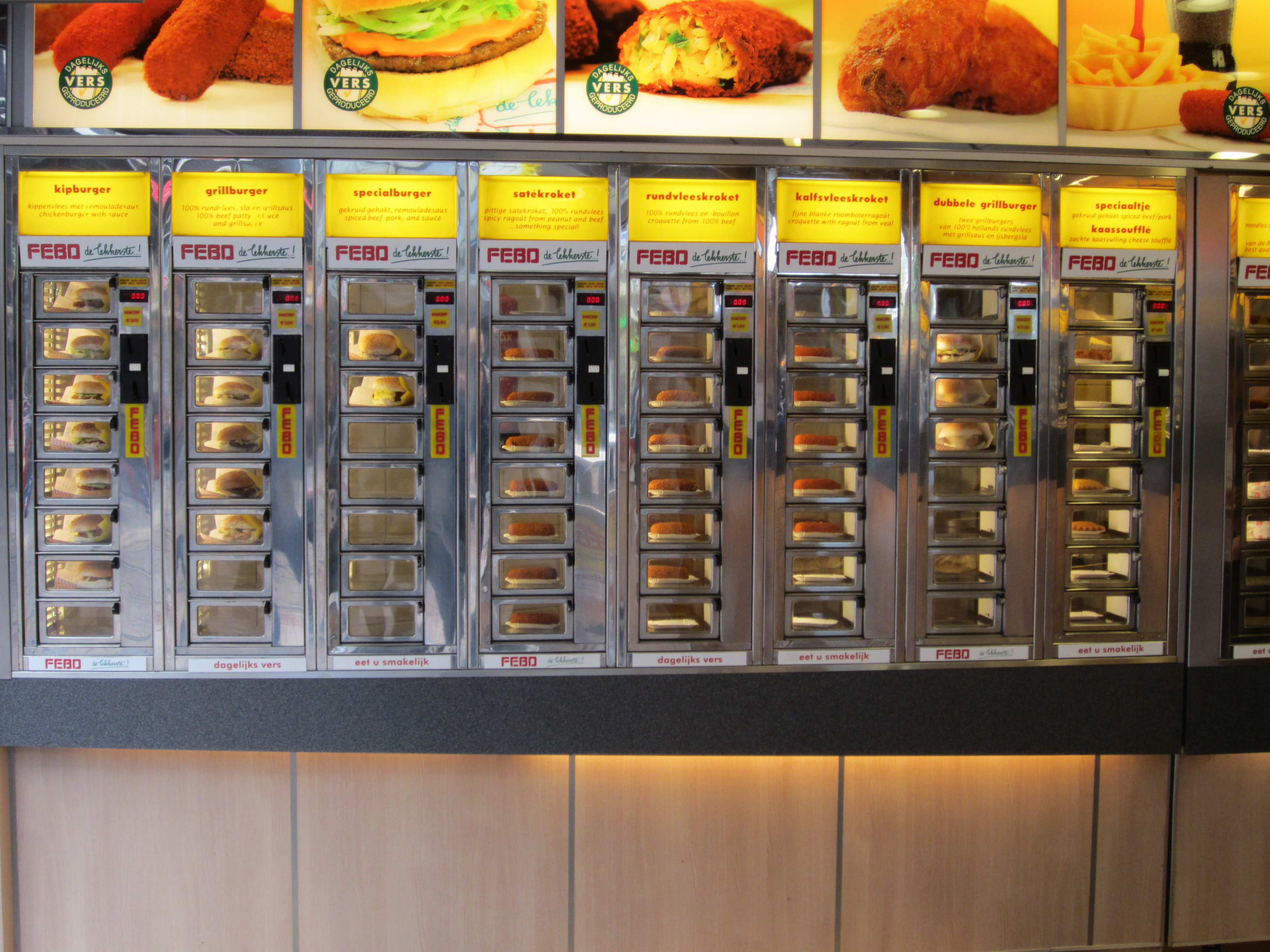 A food vending machine at a FEBO restaurant in Amsterdam